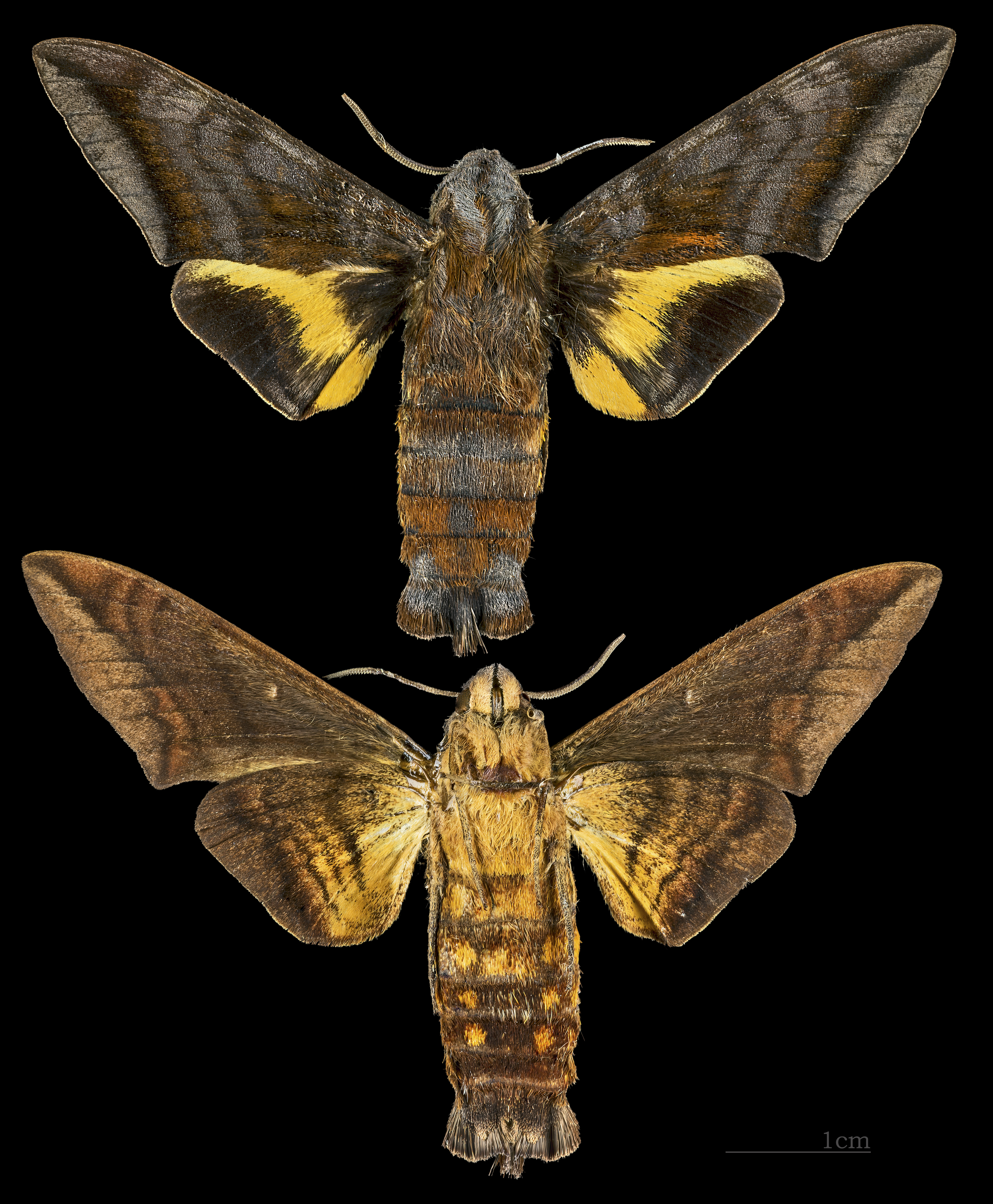 Eupyrrhoglossum corvus - Two views of same specimen Collection of the Mathematician Laurent Schwartz